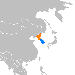 Locator map for North and South Korea.